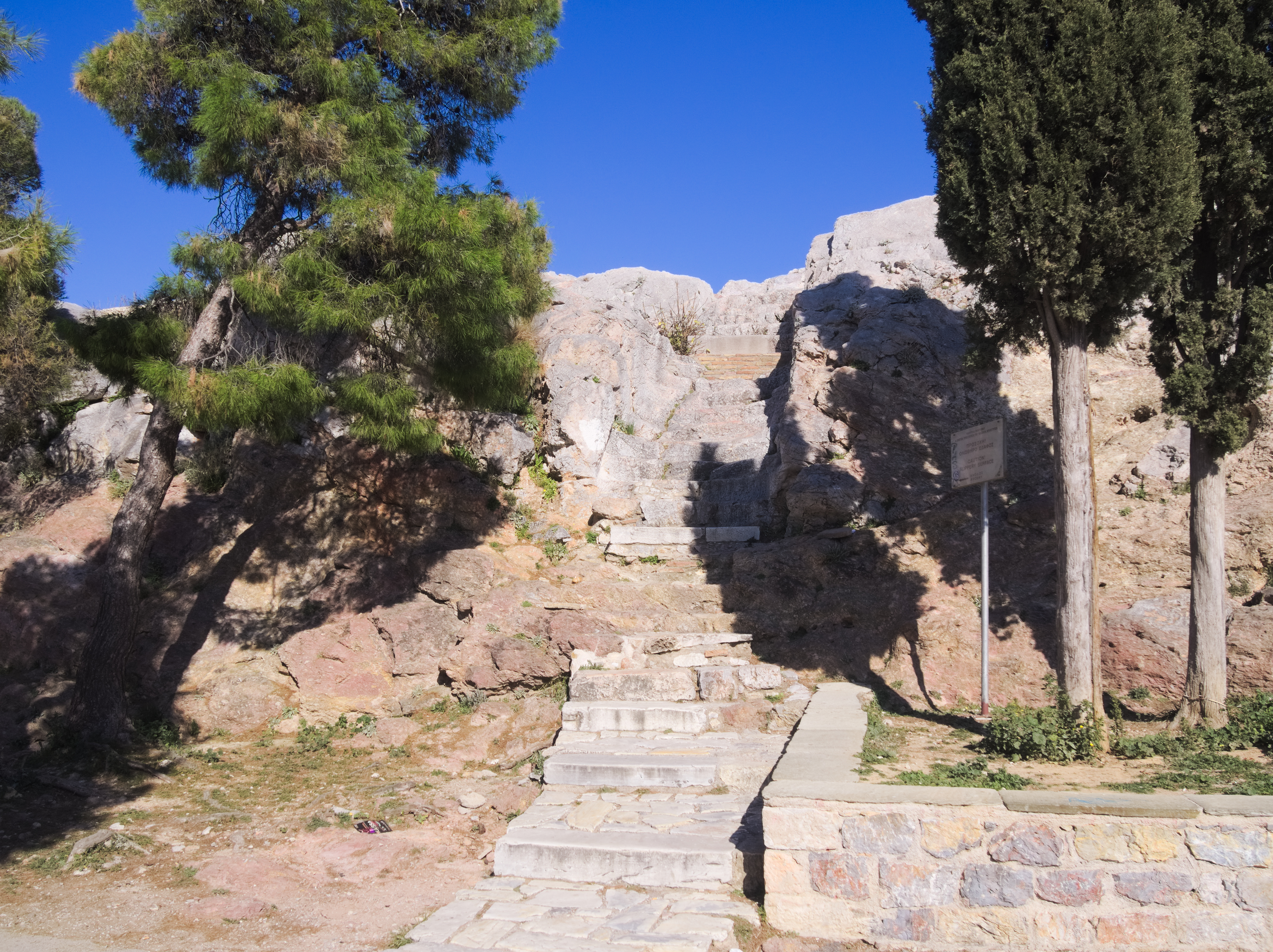 The steps leading atop Areopagus, Athens.